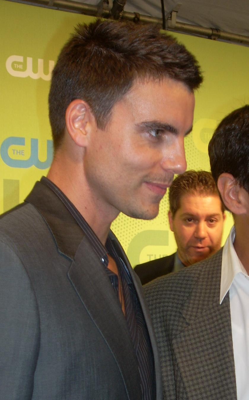 Colin Egglesfield attending the Nylon and Express August Denim Issue Party, The London Hotel, West Hollywood